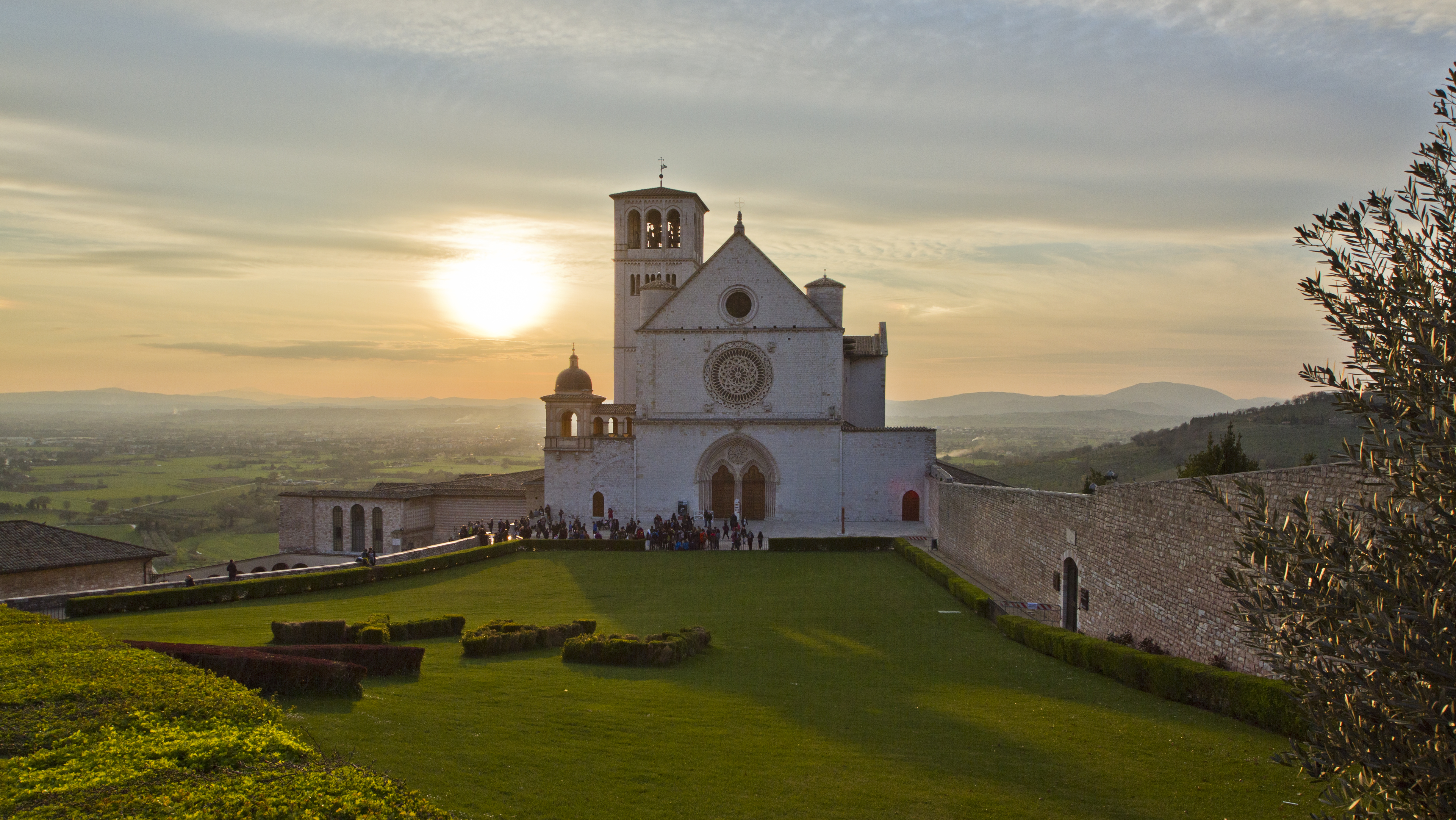 Basilica of San Francesco d'Assisi, Assisi, Province of Perugia, Umbria, Italy